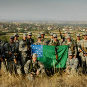 Flag of the Green Mountain Boys being displayed in Macedonia by troops of the Vermont National Guard.